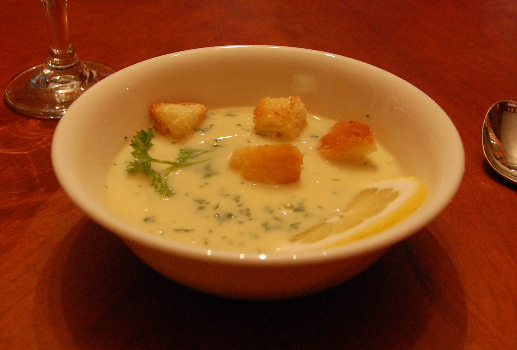 This was yummy.